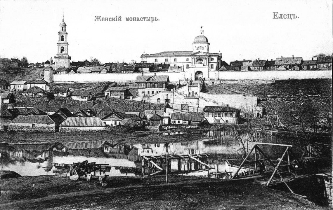 Convent in Yelets. Pre-1917 postcard Flickr data on 2011-08-13 Camera: BearPaw 2448TA Plus Tags: old postcard, Yelets, Convent, monastery License: CC BY-SA 2.0 User: paukrus Ruslan